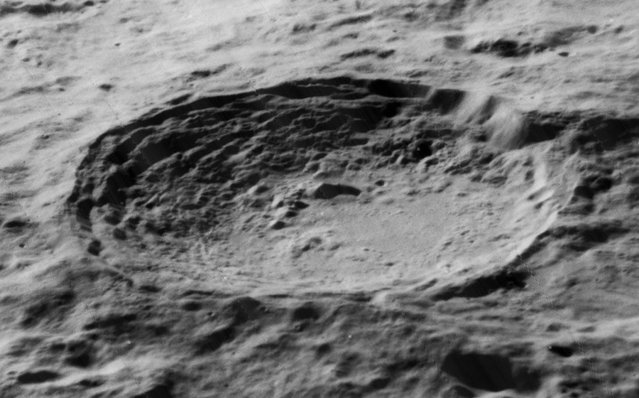 Oblique view of Vavilov, on the far side of the moon, facing west.